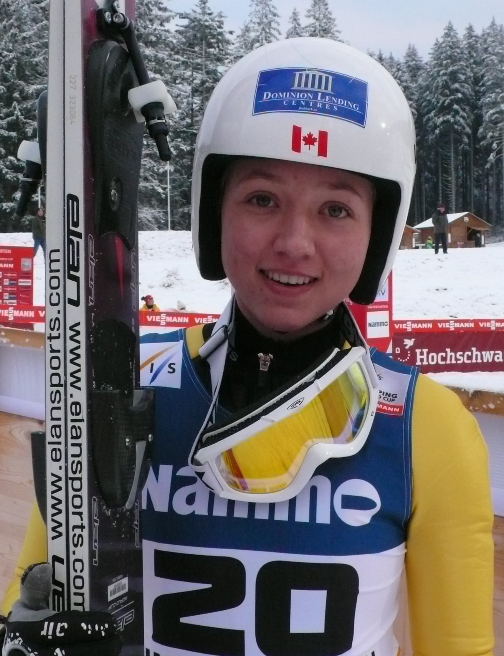 Alexandra Pretorius